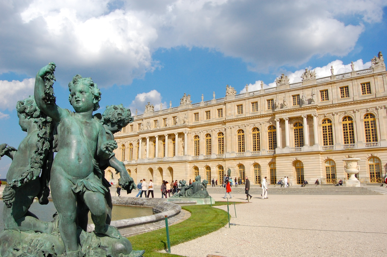 Un enfant et deux Amours - Bassin du Midi (South Pond) in the park of the Palace of Versailles, France.